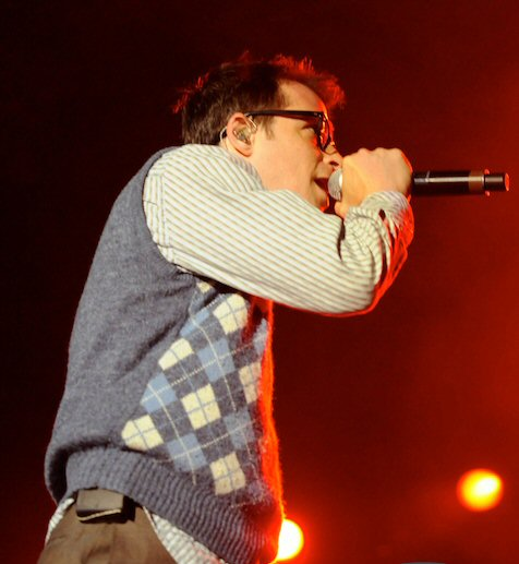 Rivers Cuomo at the Cisco Ottawa Bluesfest.